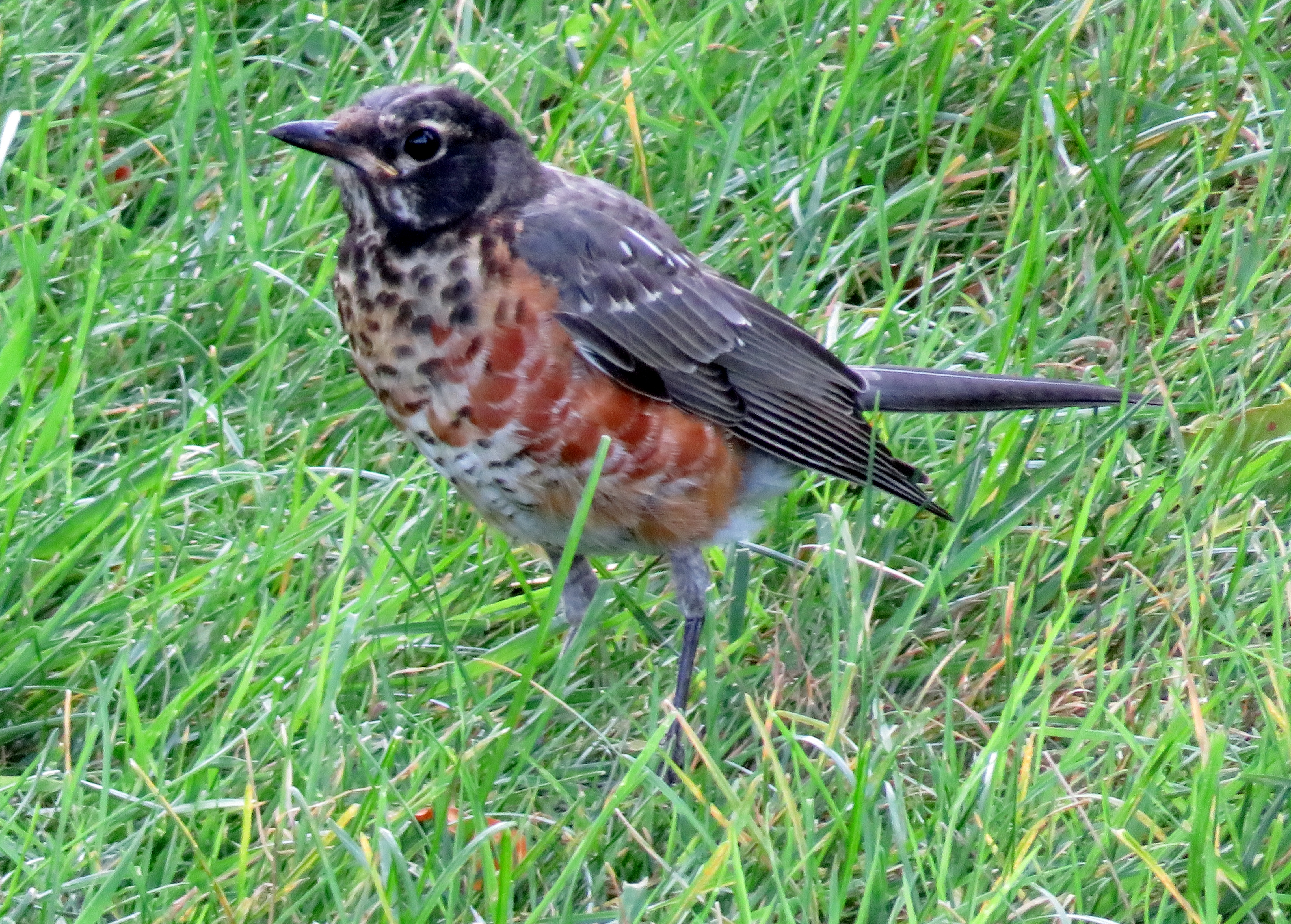 American Robin, juvenile, ( Turdus migratorius), Île Paton, Laval, Quebec, Canada.